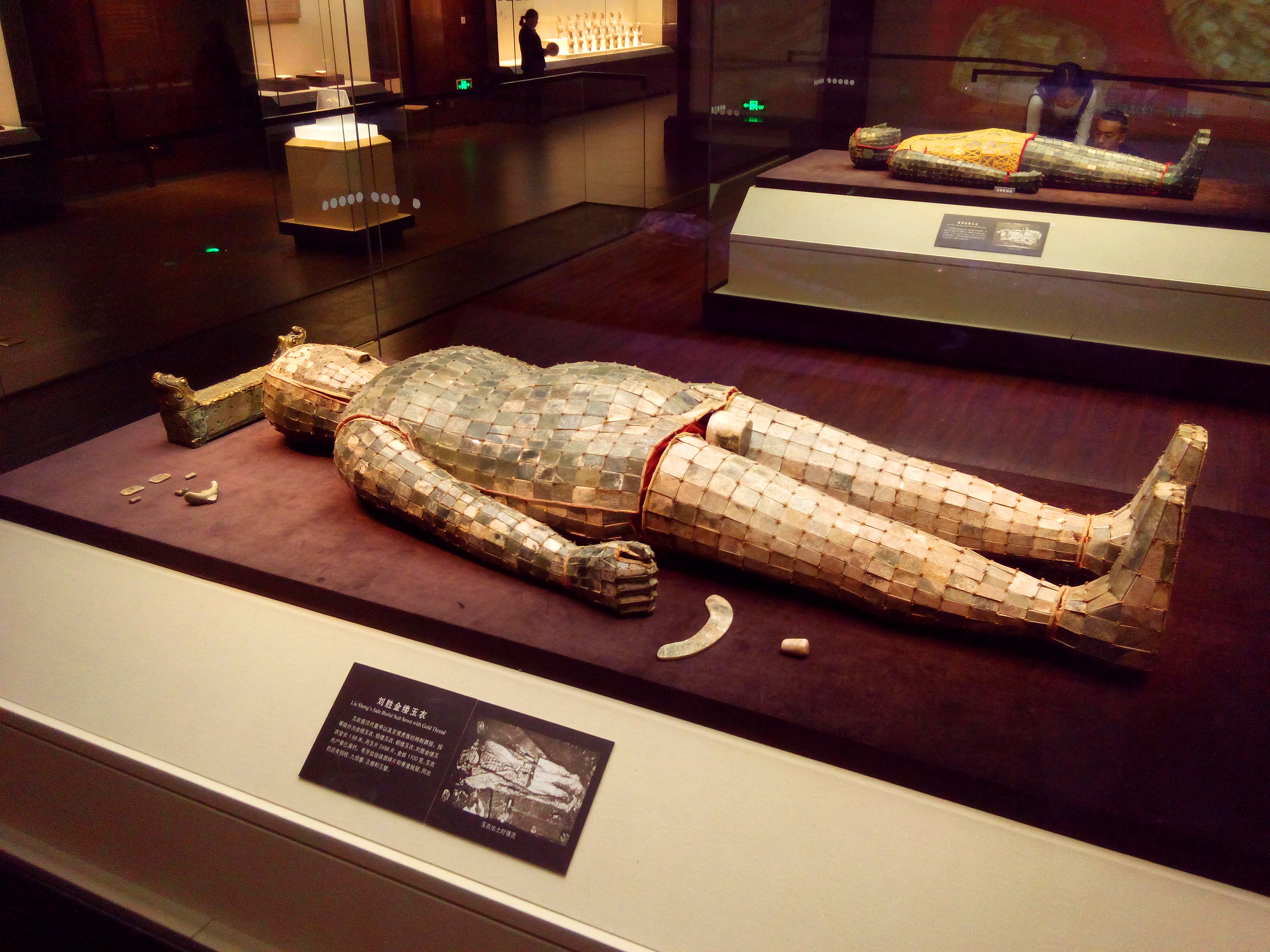 Jin Lv Yu Yi of Liusheng, Han Dynasty,China (Hebei Museum)